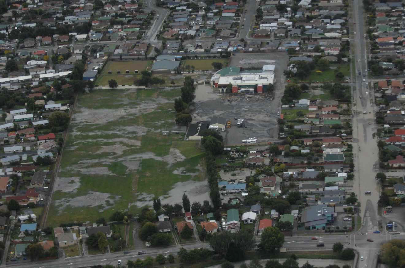 Image from Royal New Zealand Air Force P-3K Orion that conducted aerial surveillance of areas affected in Christchurch earthquake on 22 February 2011 Image from Royal New Zealand Air Force P-3K Orion that conducted aerial surveillance of areas affected in Christchurch earthquake on 22 February 2011 Crown Copyright 2011, NZ Defence Force – Some Rights Reserved.